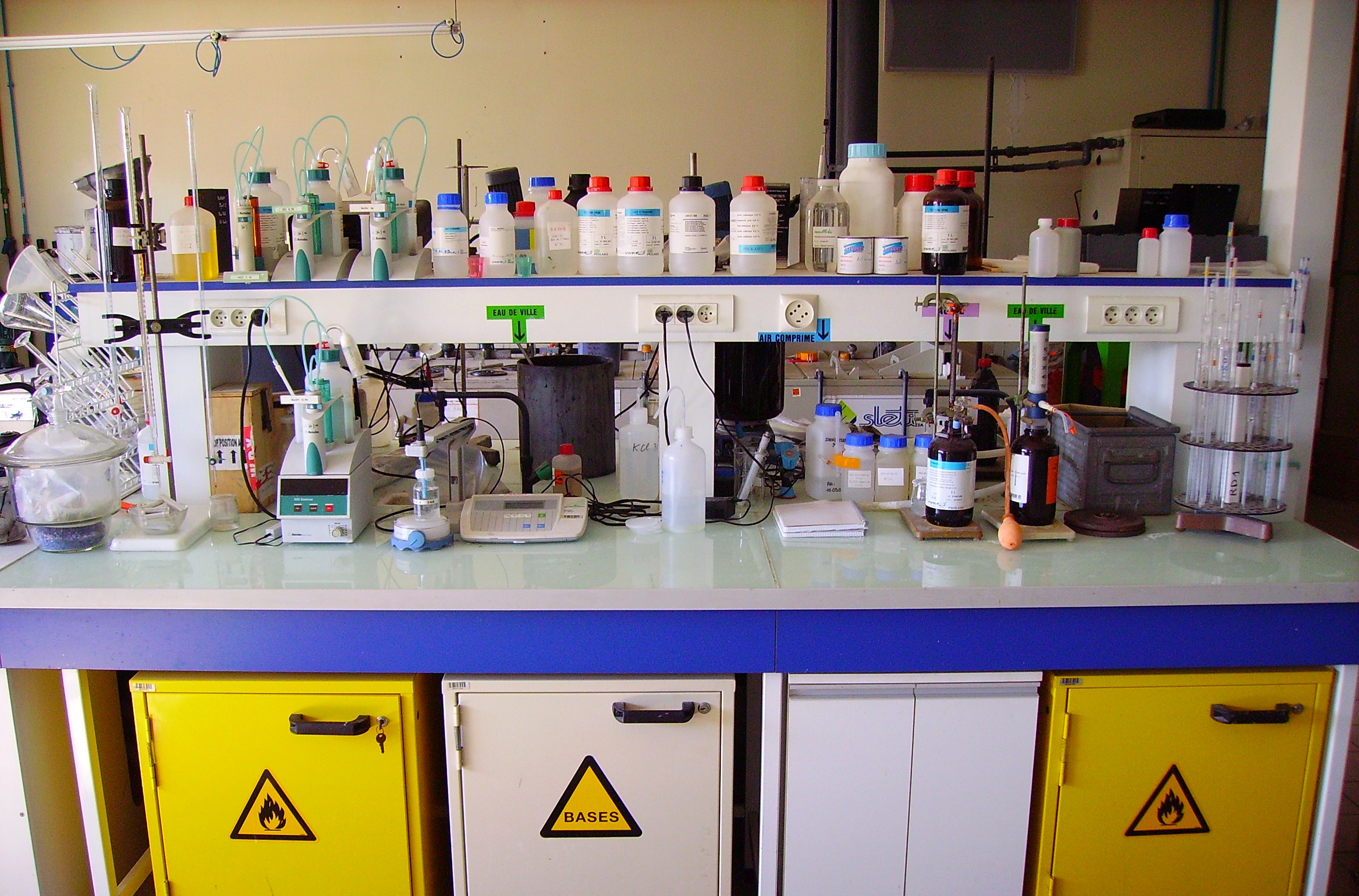 A laboratory bench in analytical chemistry.